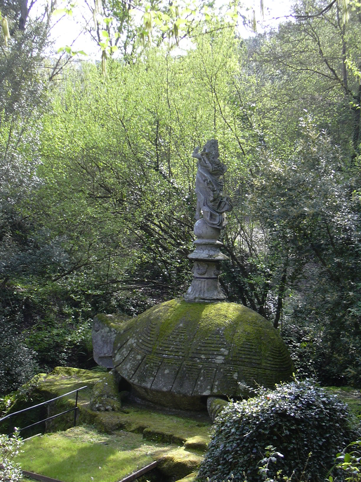 Sacro Bosco of Bomarzo, lady on a turtle